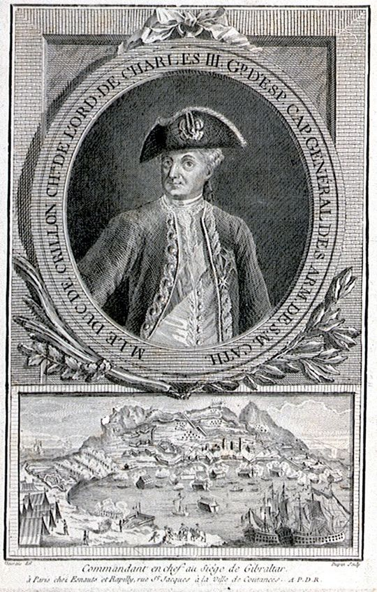 Portrait of Louis des Balbes de Berton de Crillon, Duke de Crillon, commander in chief during the siege of Gibraltar.